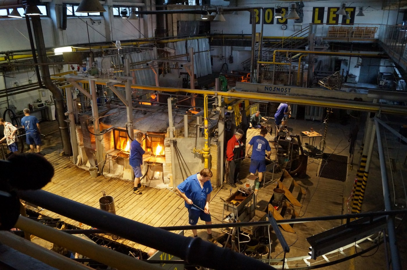 Glass production, Czechia